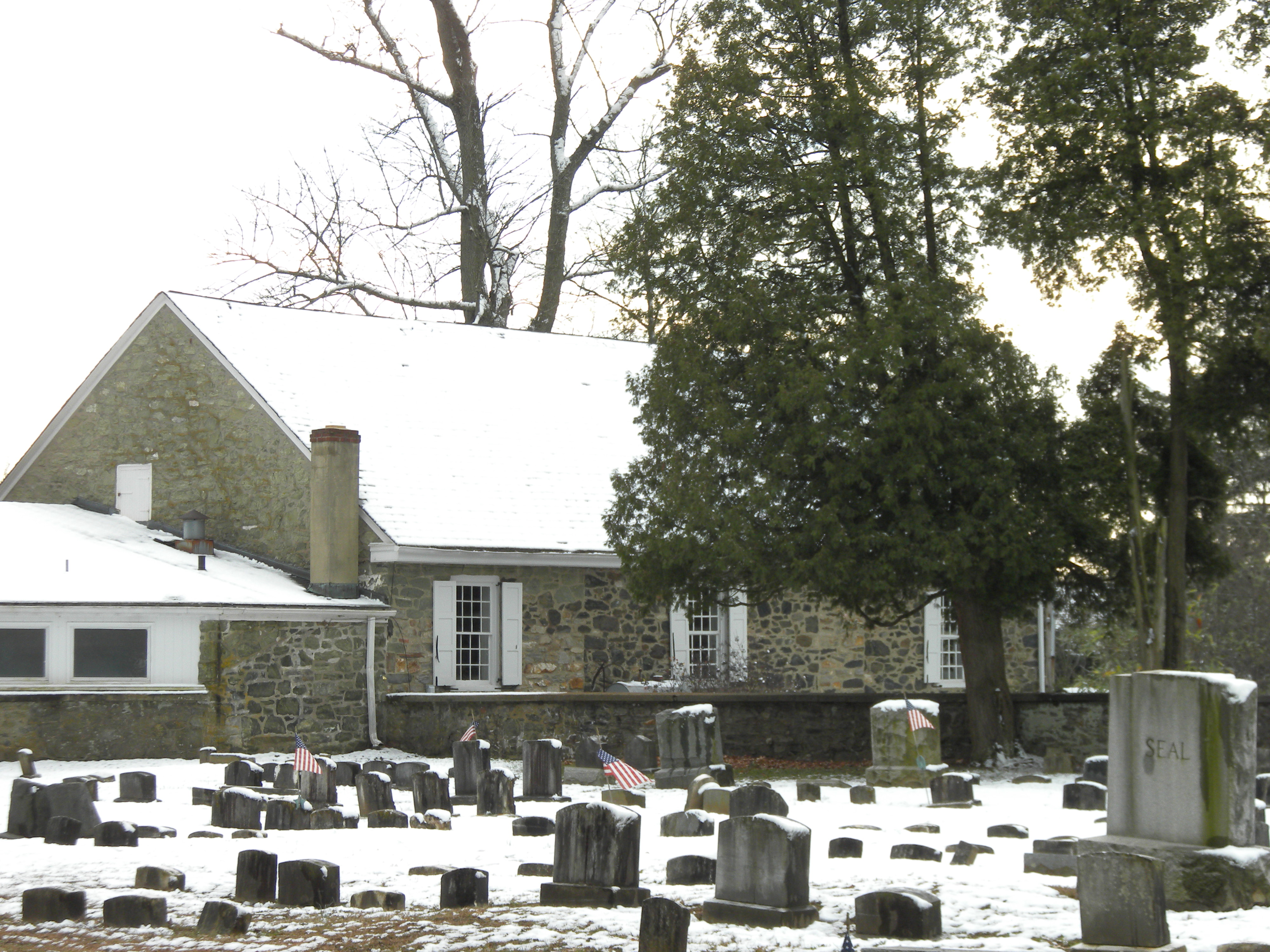 Birmingham Friends Meeting in Chester Co, PA. Site of the Battle of Brandywine. On NRHP.